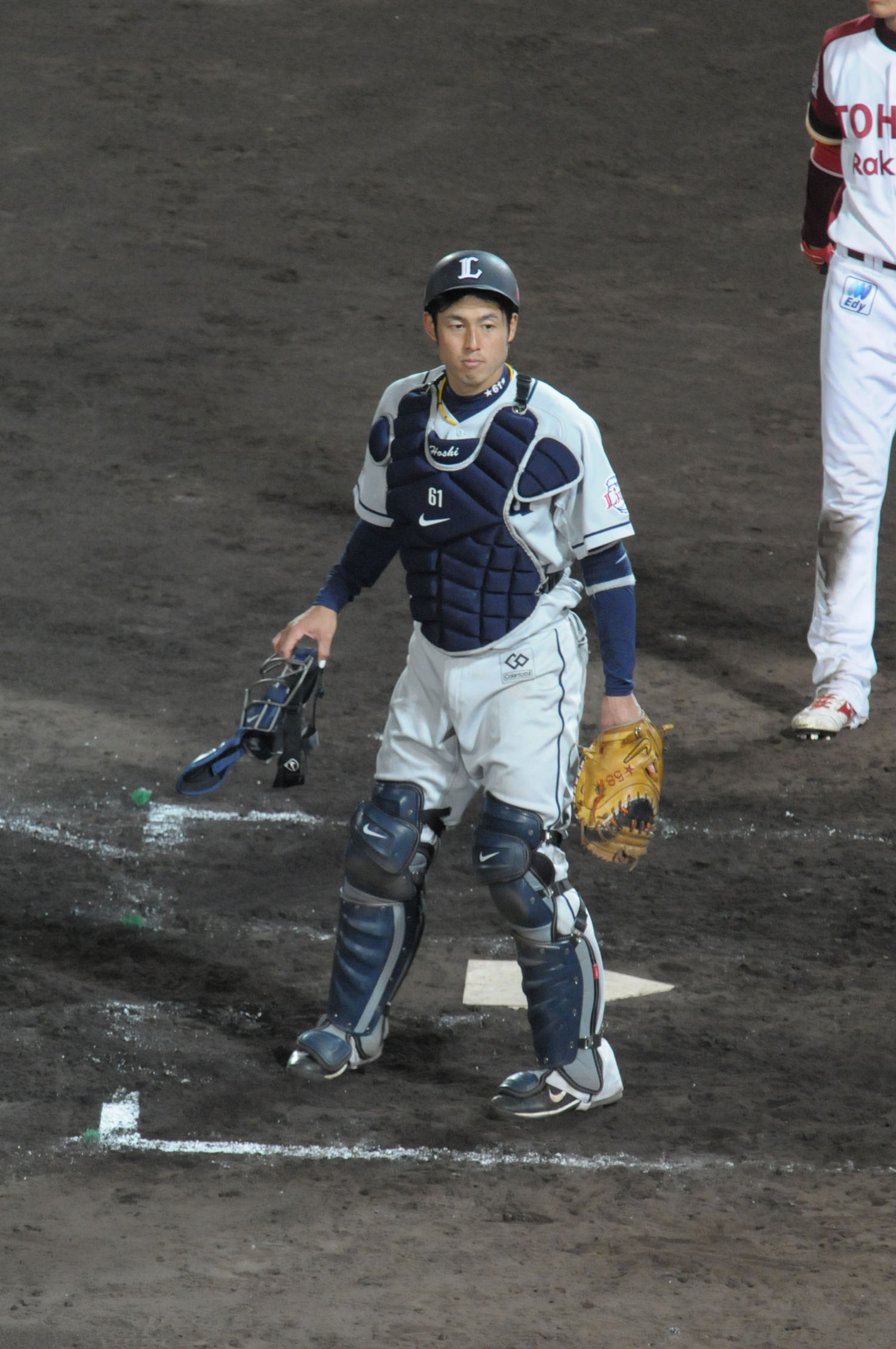 Takanori Hoshi, catcher of the Saitama Seibu Lions, at Akita Prefectural Baseball Stadium.